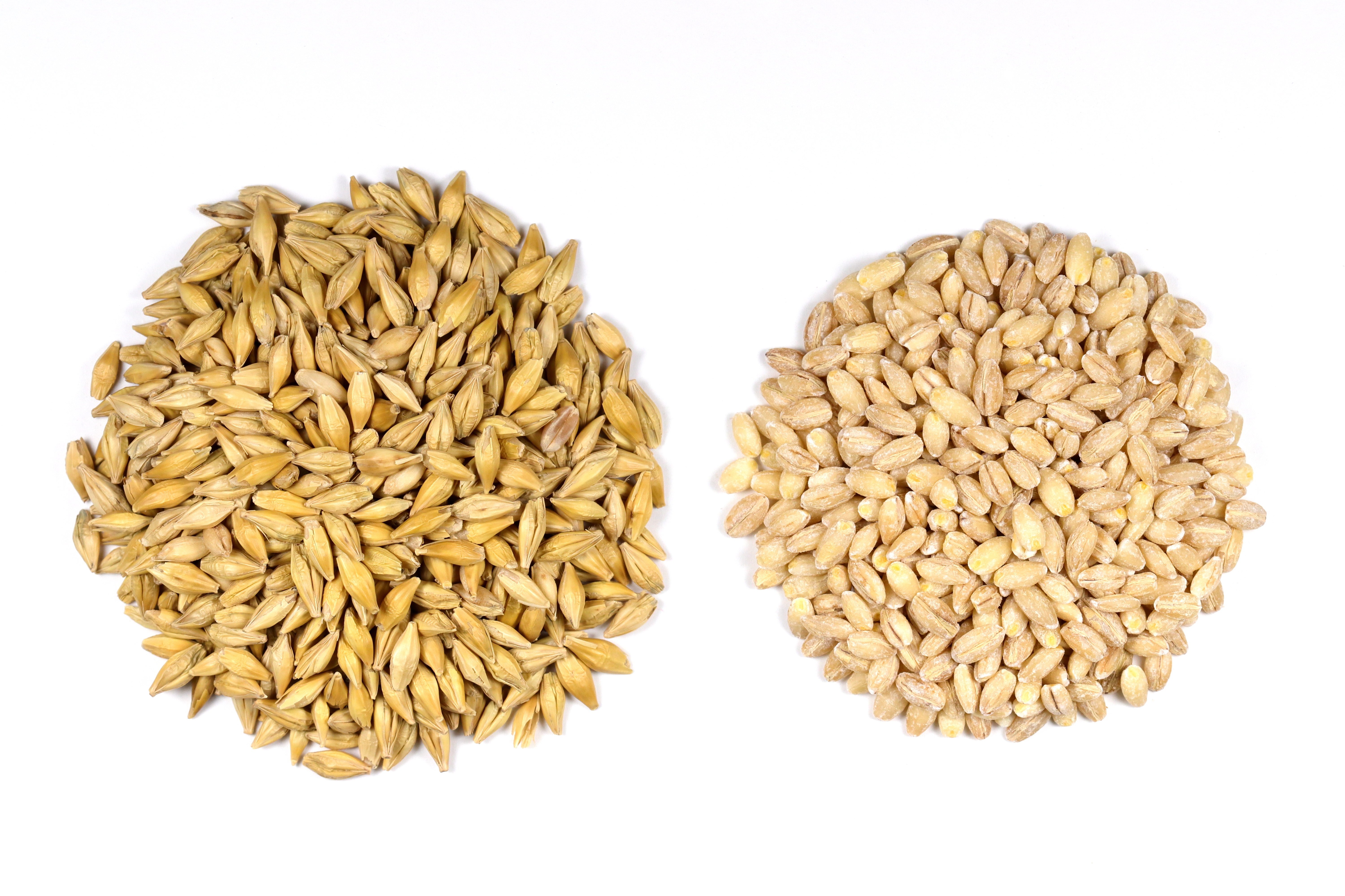 Barley (Hordeum vulgare L.) seeds with husk (left) and with husk removed (right).